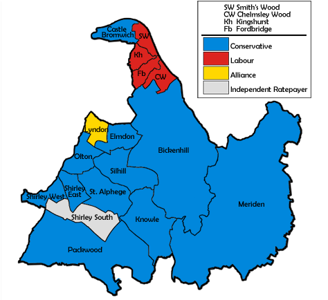 Ward map of Solihull Council with political colouring for the 1987 election.